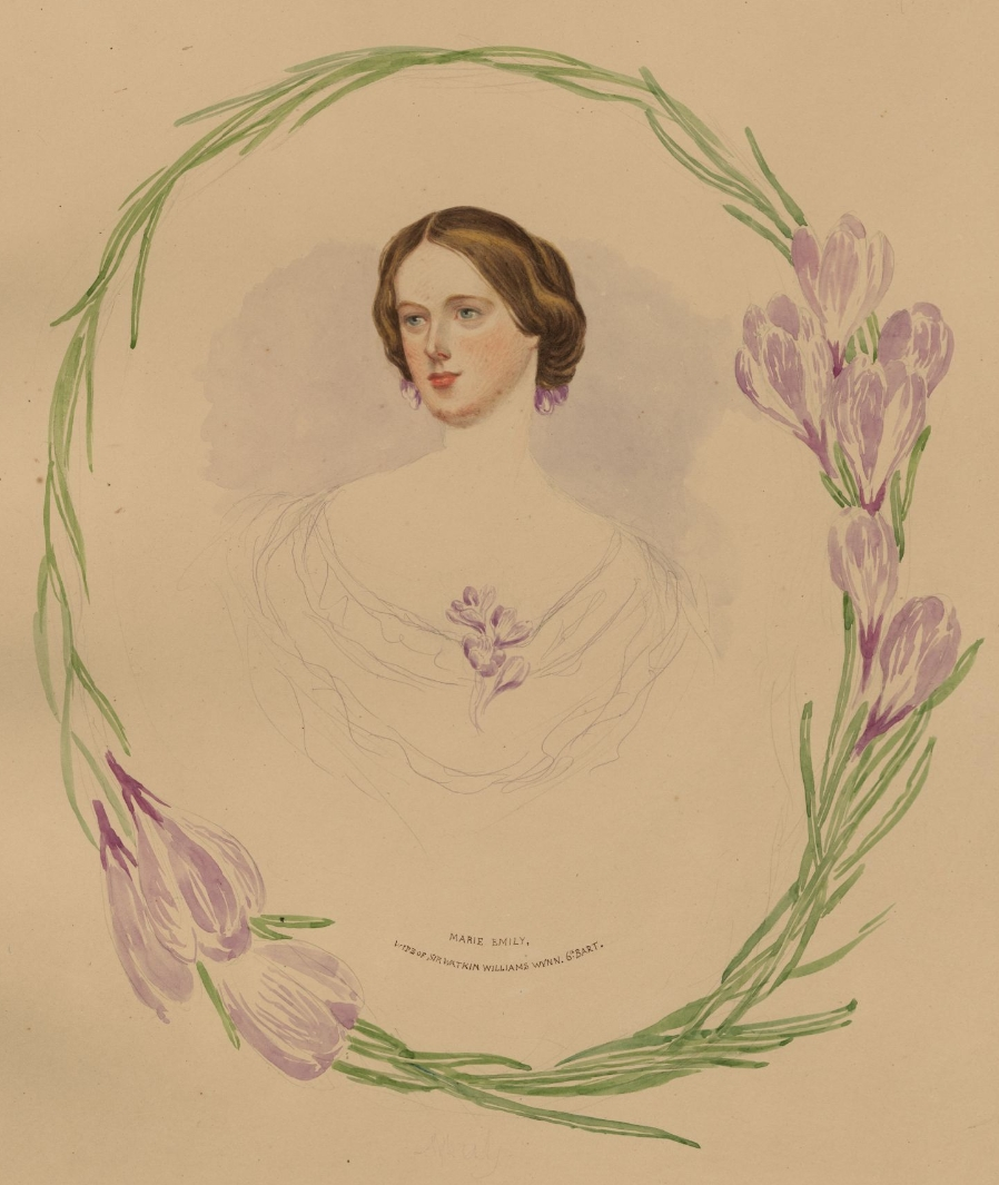 Unfinished portraits of Shropshire Ladies by Lady Mary Leighton. Marie Emily d. of Sor Watkins Williams Wynn